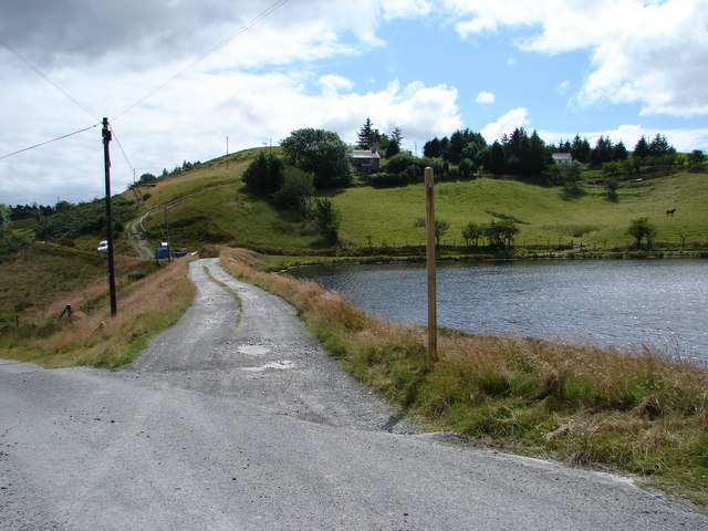 Track Beside Llyn-Yr-Oerfa near Ystumtuen, Ceredigion, Wales.